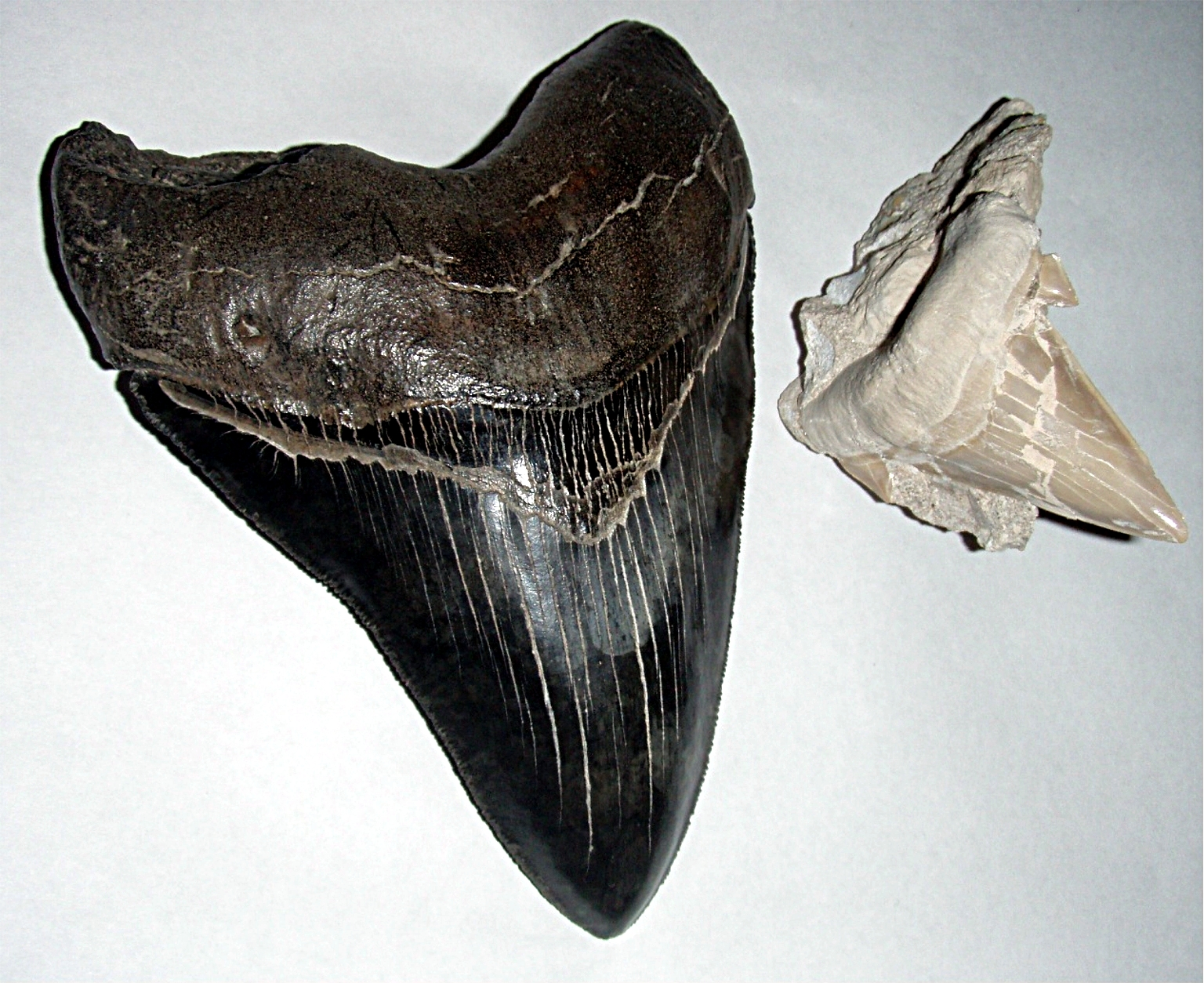 Megalodon tooth with a fossil Otodus obliquus tooth